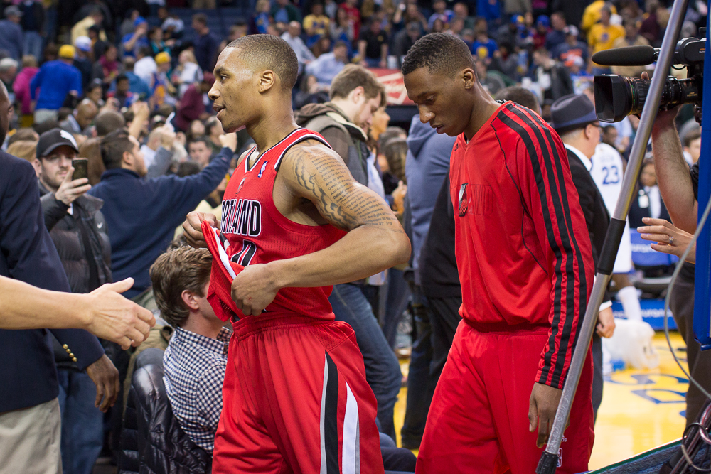 Damian Lillard and Nolan Smith of the Portland Trail Blazers